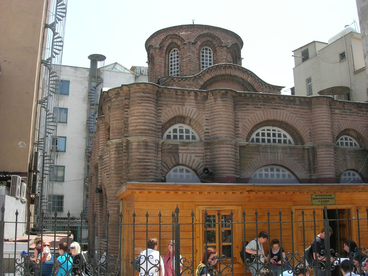 The front of the former Church of the Myrelaion( today mosque of Bodrum) in Istanbul